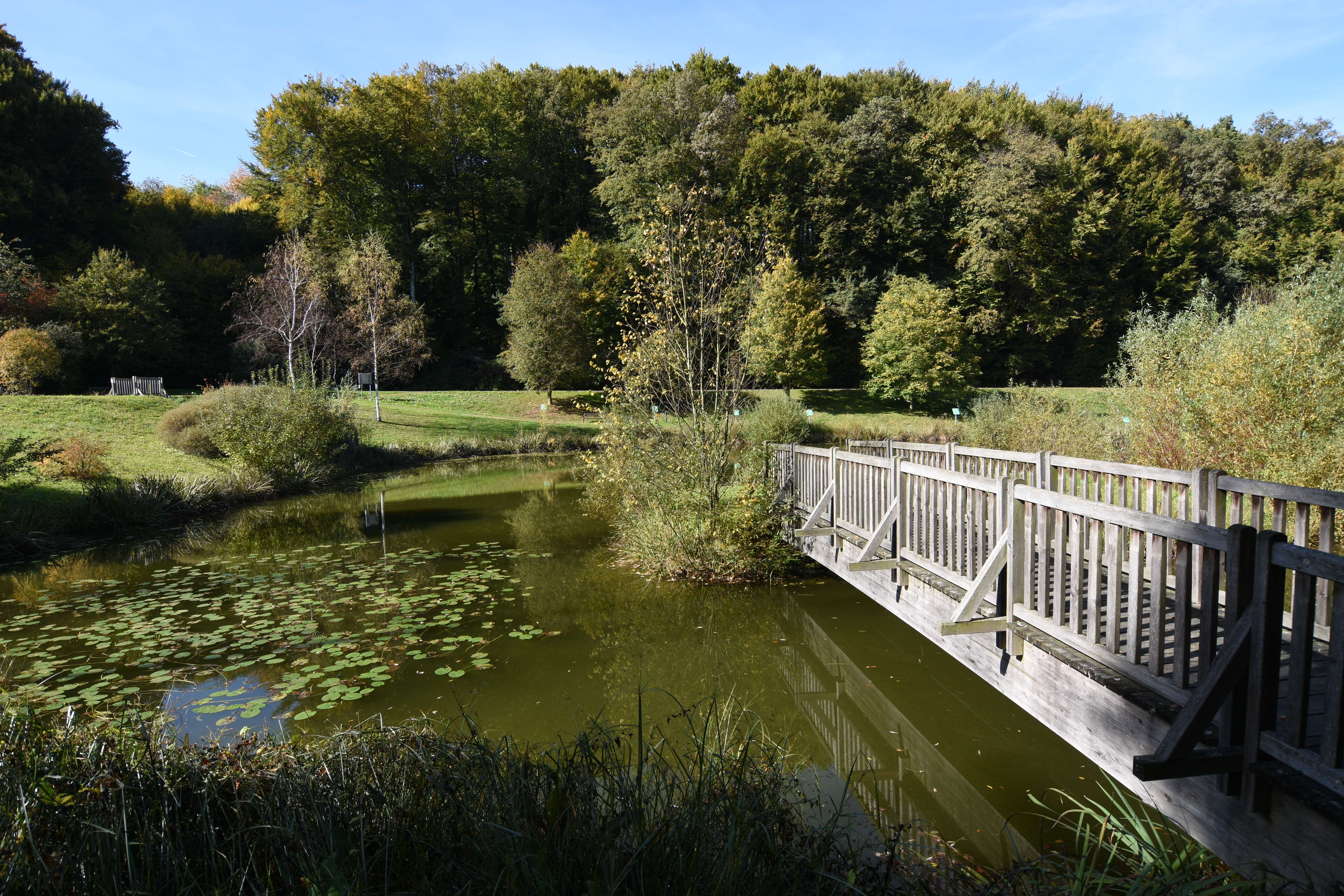 Unterlamm